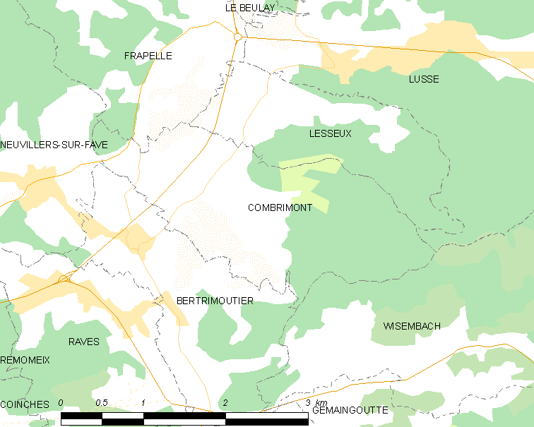 Map of French municipality Combrimont